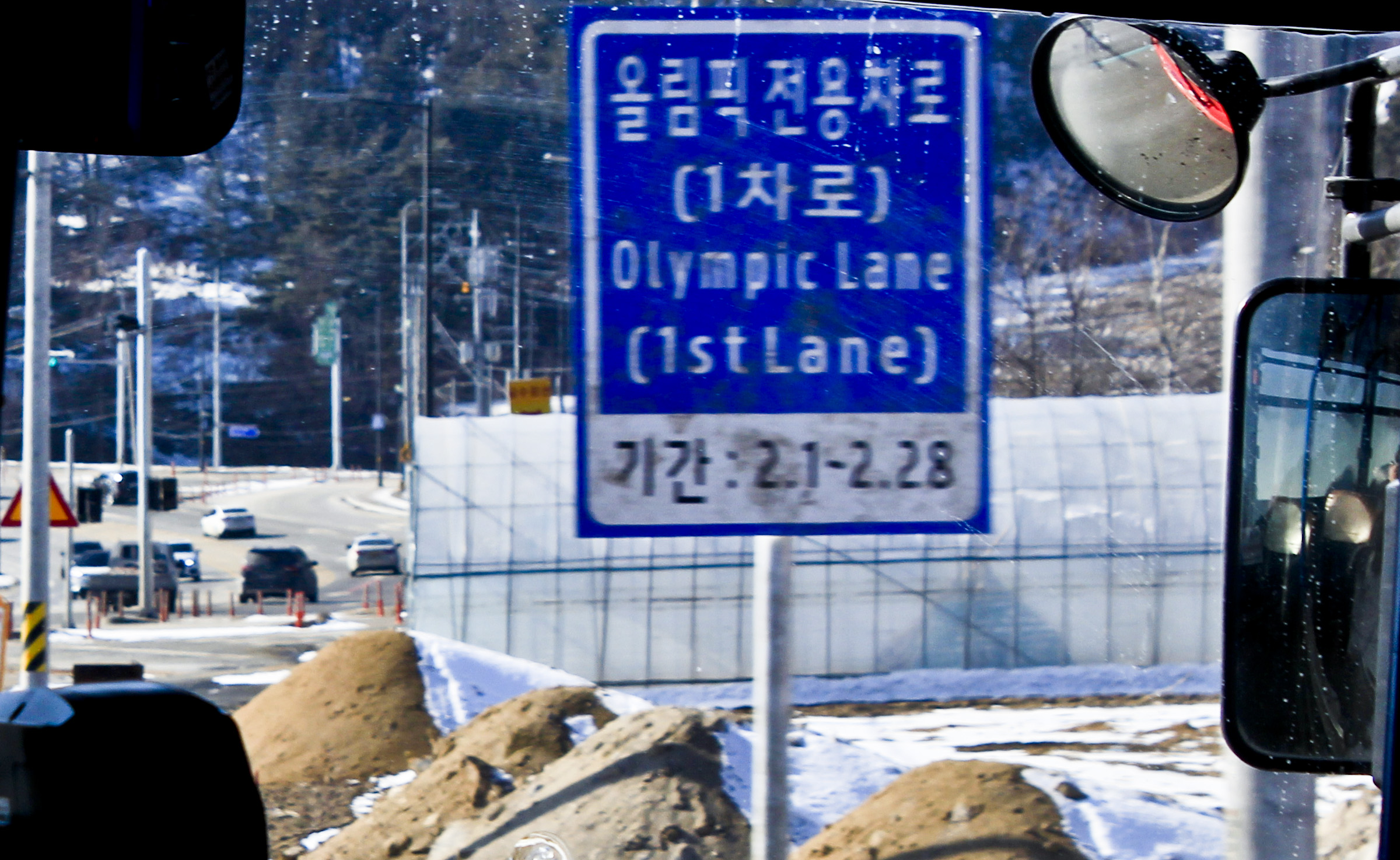 2018 Olympics Lane in 6th national highway